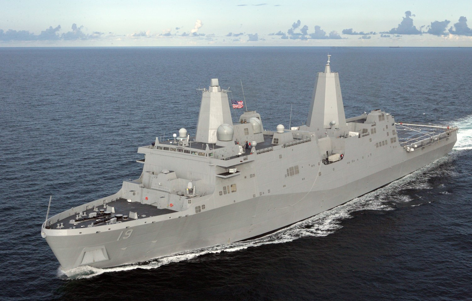 USS Mesa Verde (LPD-19) underway during builders sea trials, circa December 2007.